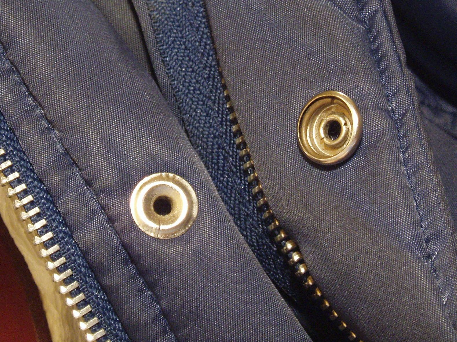 Author of Photo .. Paul Edmonds Date 12th of July , 2005